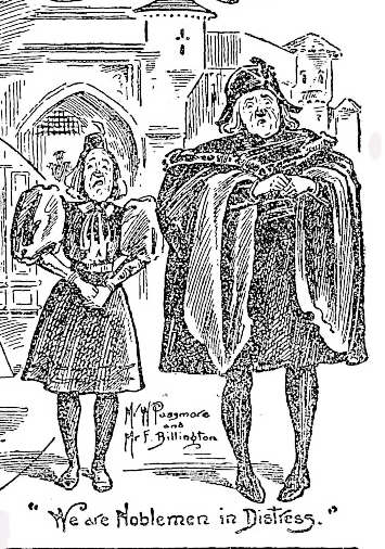 Image of Walter Passmore and Fred Billington in His Majesty, scanned from "His Majesty", The Sporting Mirror and Dramatic and Music Hall Record, 1 March 1897, p. 1. Public domain.